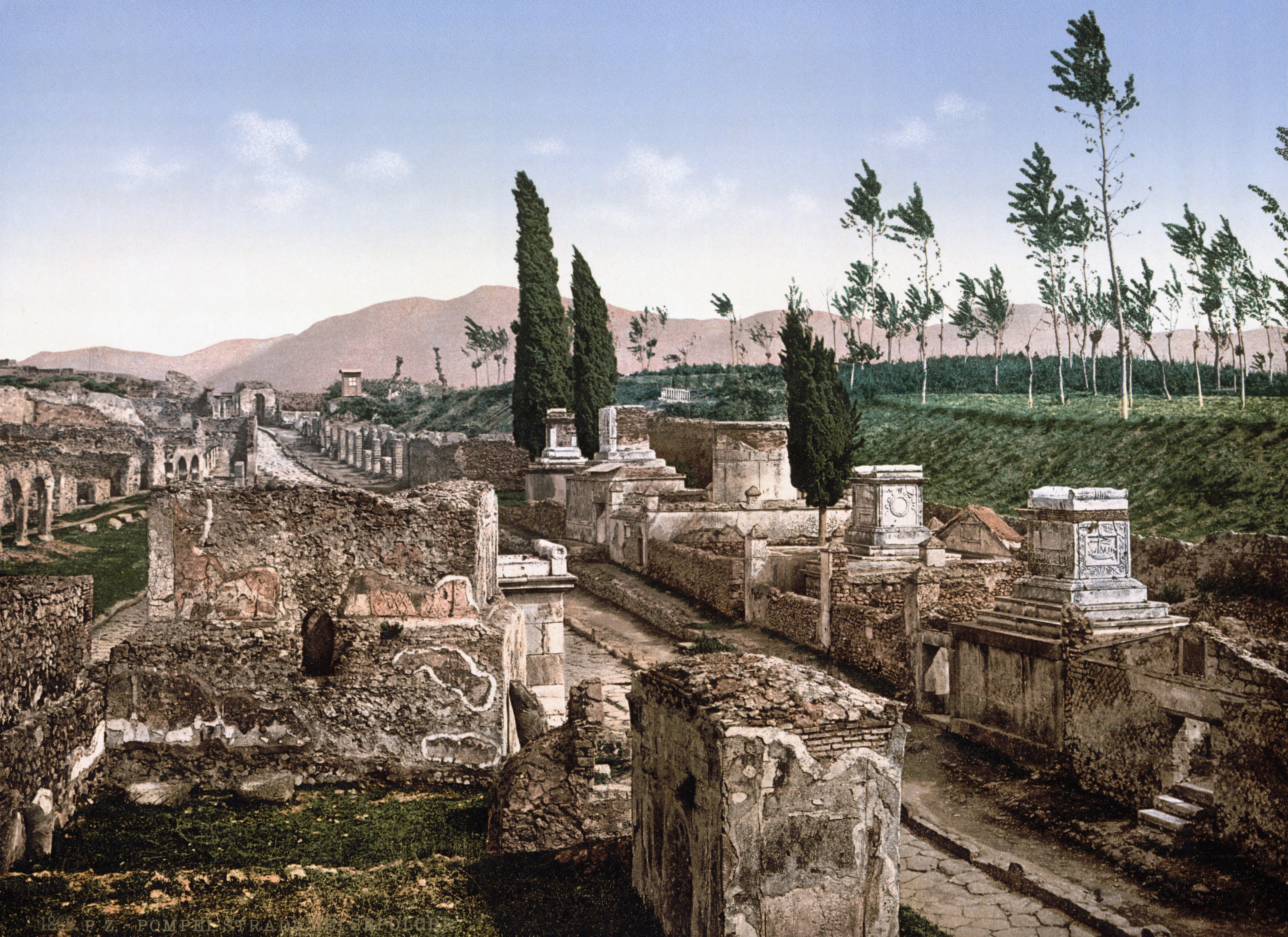 Pompeji - Street of the Tombs ca. 1900.